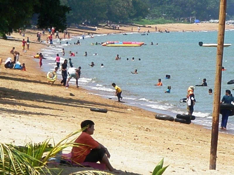 Title: Kemunting beach in Pengkalan Balak Taken by: Adiput Date taken: 2007